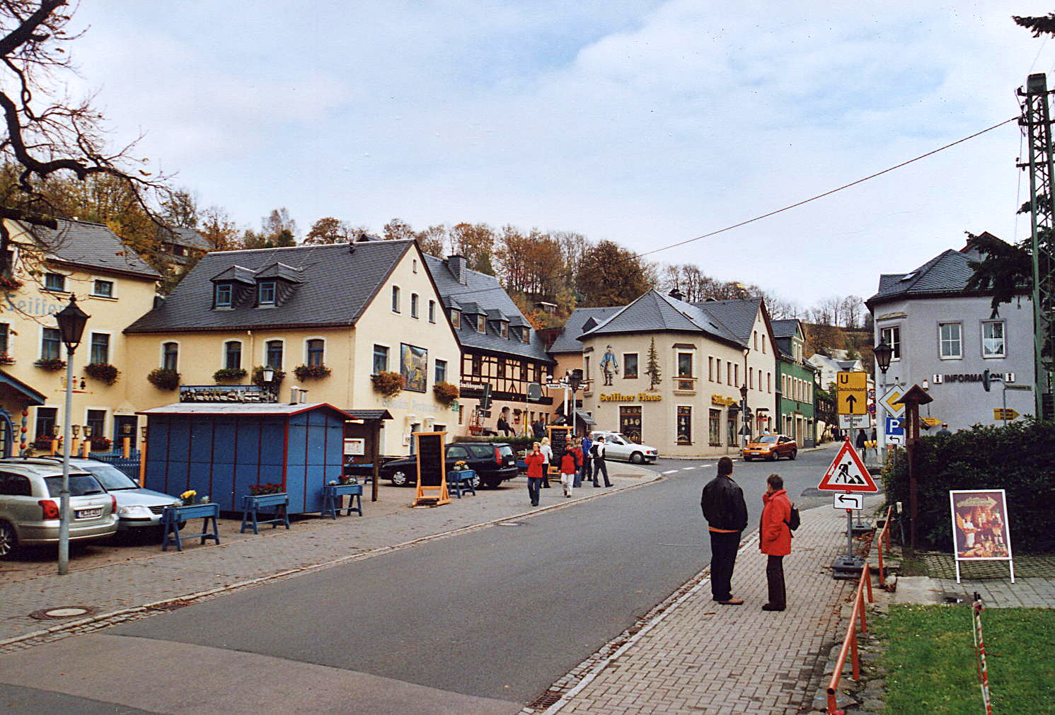 This image shows the central part of Seiffen in the Ore Mountains in Saxony, Germany.